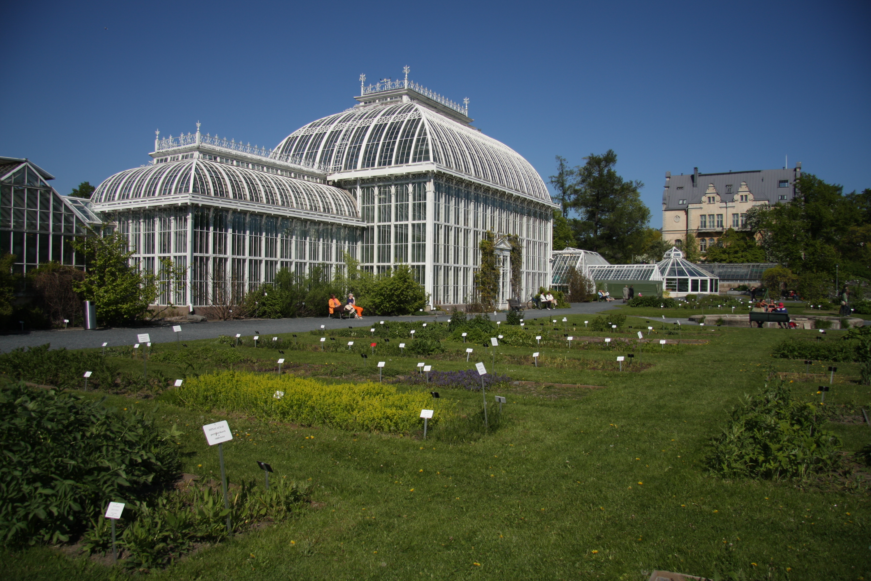 The University of Helsinki Botanical Garden at Kaisaniemi